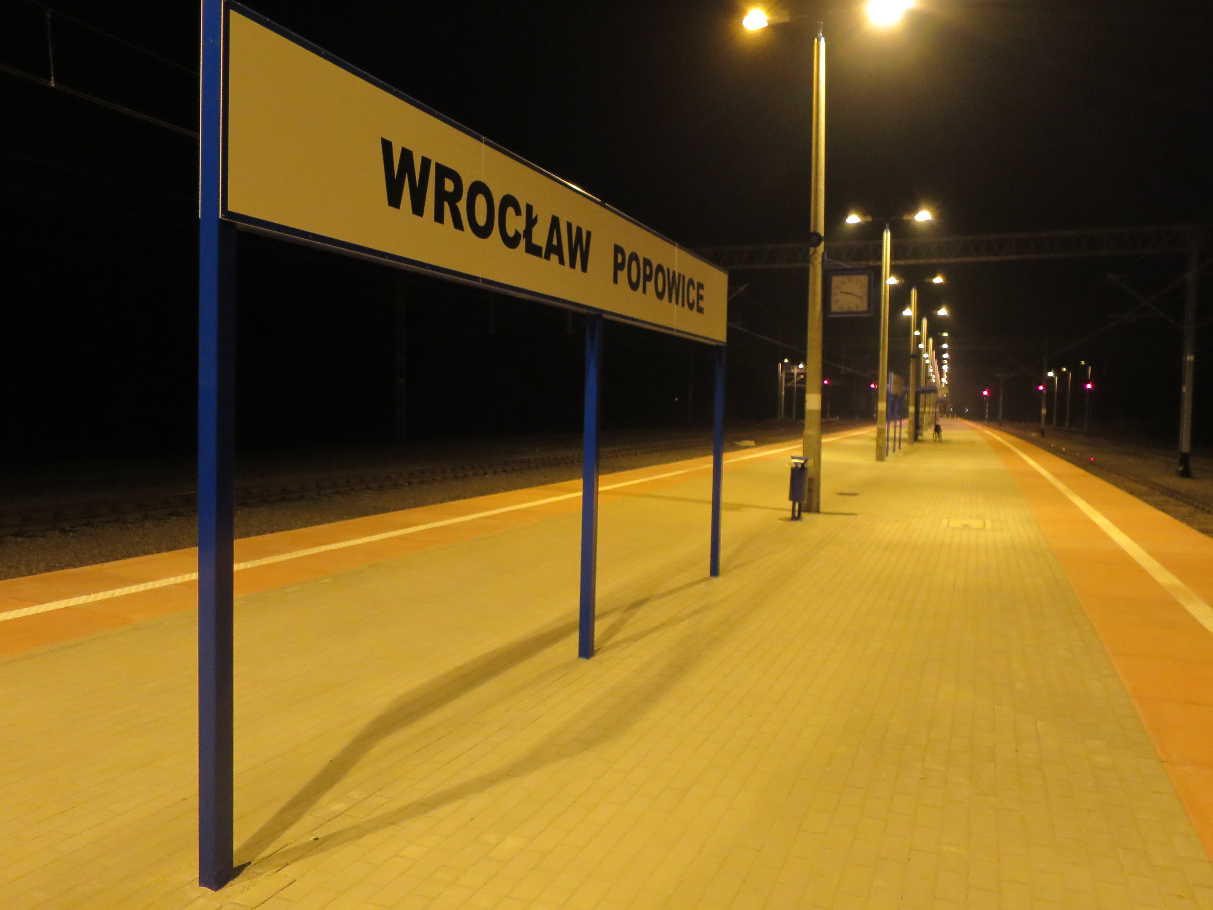 Wrocław Popowice This photo was taken during Railway Wikiexpedition 2015 set up by Wikimedia Polska Association in cooperation with Fundacja Grupy PKP.You can see all photographs in category Wikiekspedycja kolejowa 2015.